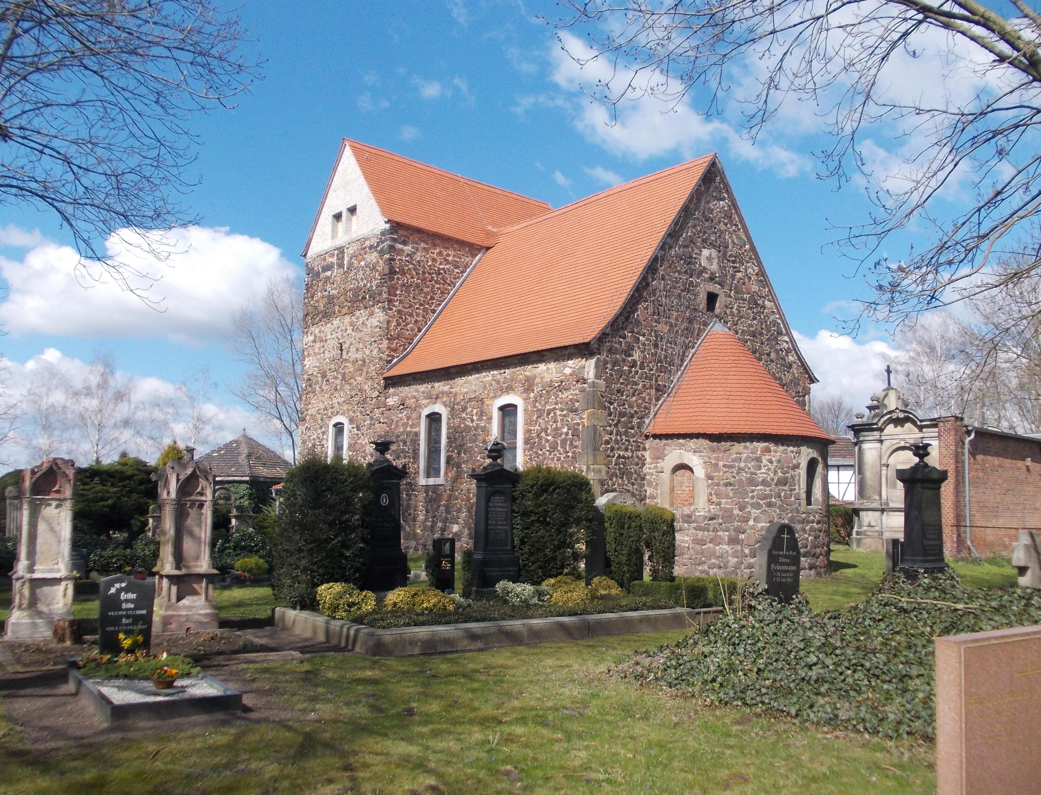 St. Nicholas' Church in untermaschwitz (Landsberg, district: Saalekreis, Saxony-Anhalt)